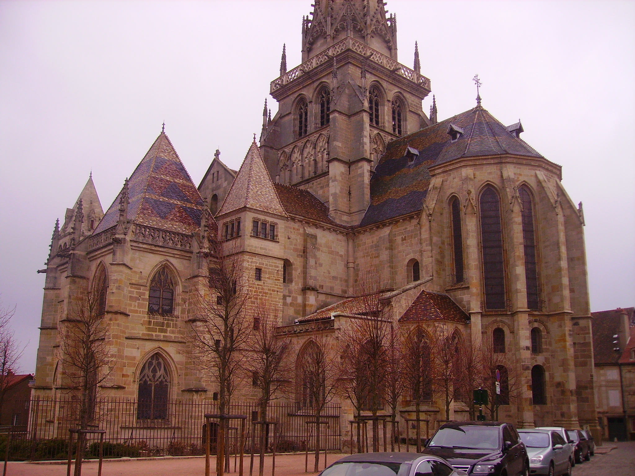 Choir of the Cathedral St. Lazarus, Autun